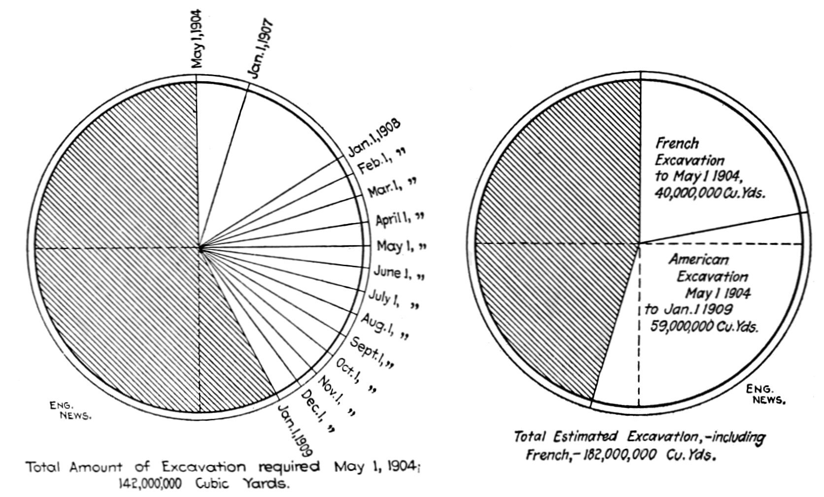 Charts of the countries contribution to the canal excavation